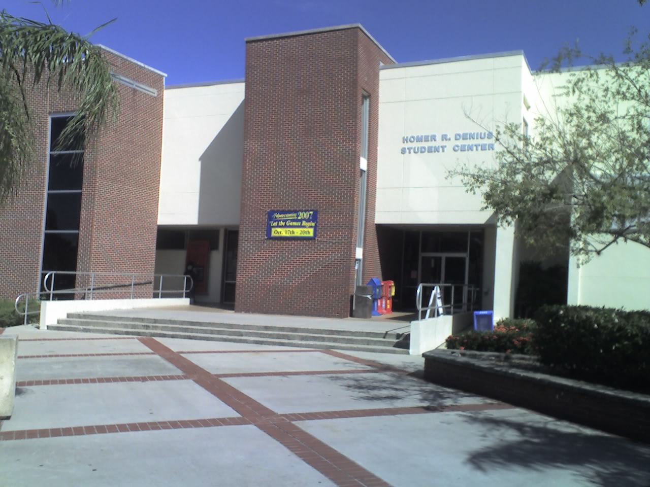 Florida Institute of Technology's Homer Denius Student Union Building, home to the campus bookstore, university mail annex, SUB Cafe, Office of Student Life, the John and Martha Hartley Room, as well as several student organizational offices. Picture taken on 21 October 2007 by User:Jamesontai on a 1.23MP Motorola V3i Camera (phone).